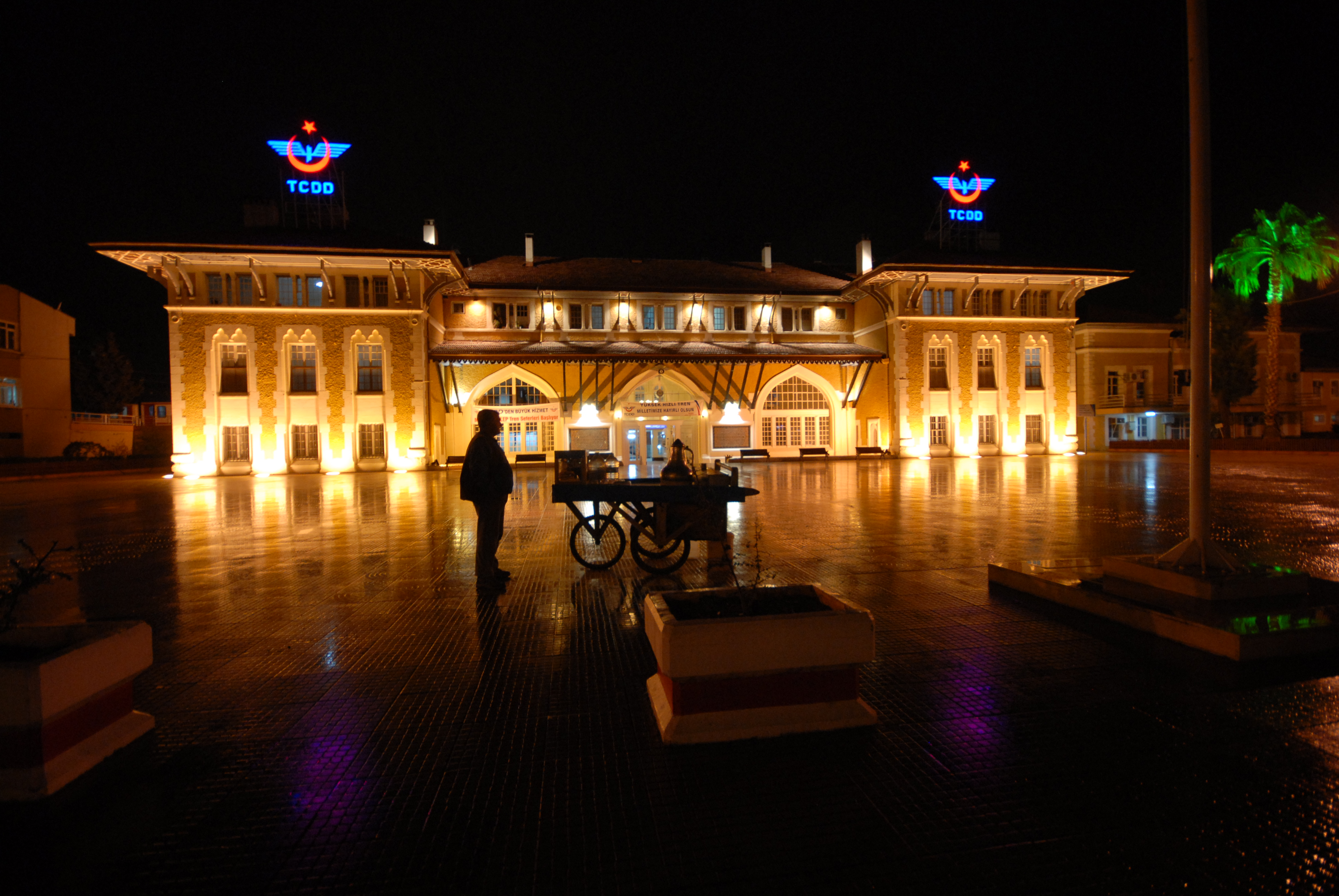 Adana Train Station